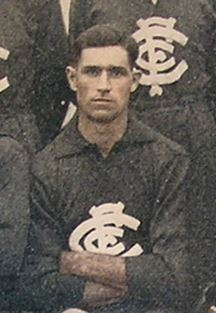 Photo of Maurie Beasy in 1928